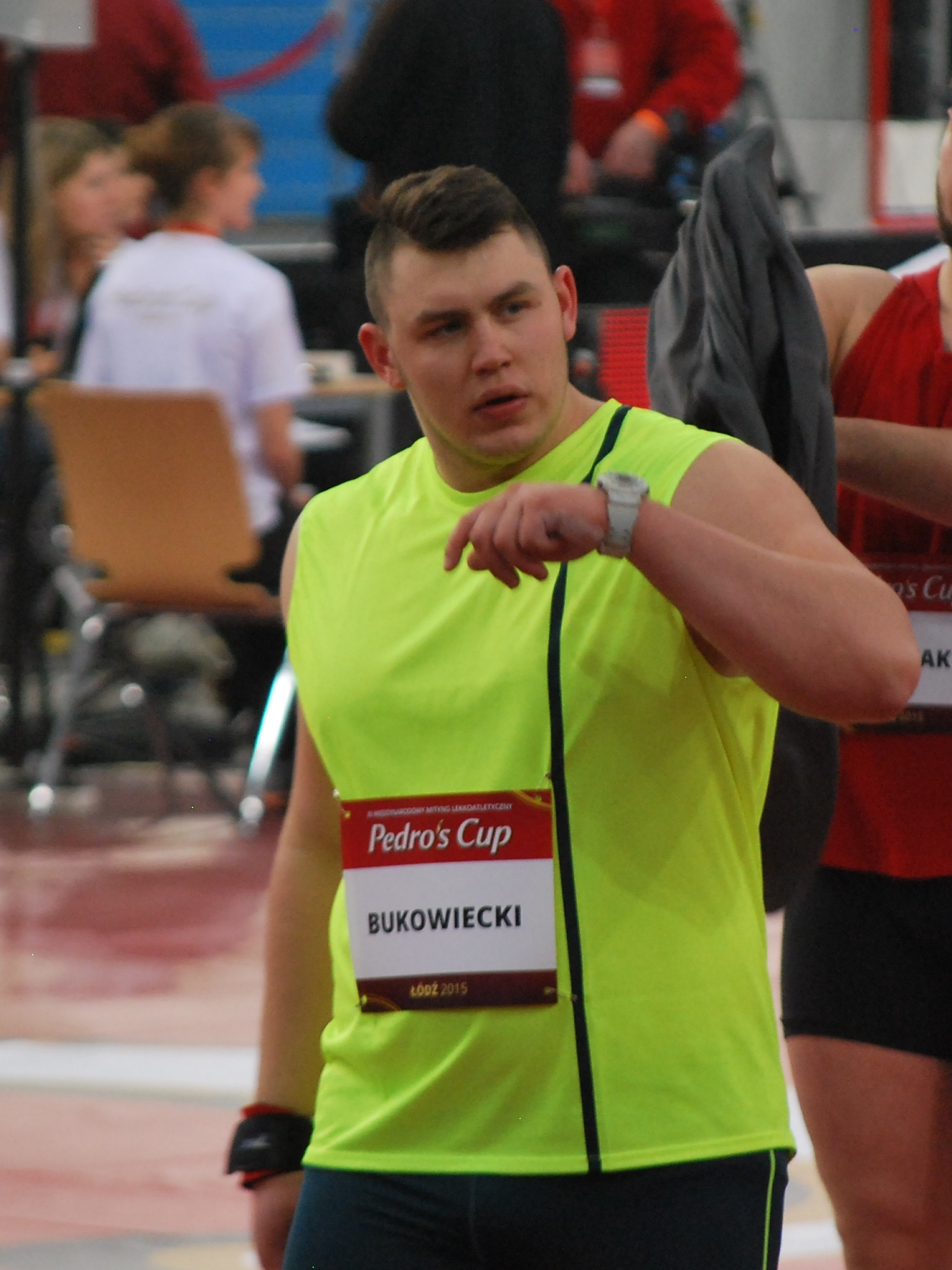 Pedros Cup 2015 Łódź, Konrad Bukowiecki, shot putter from Poland